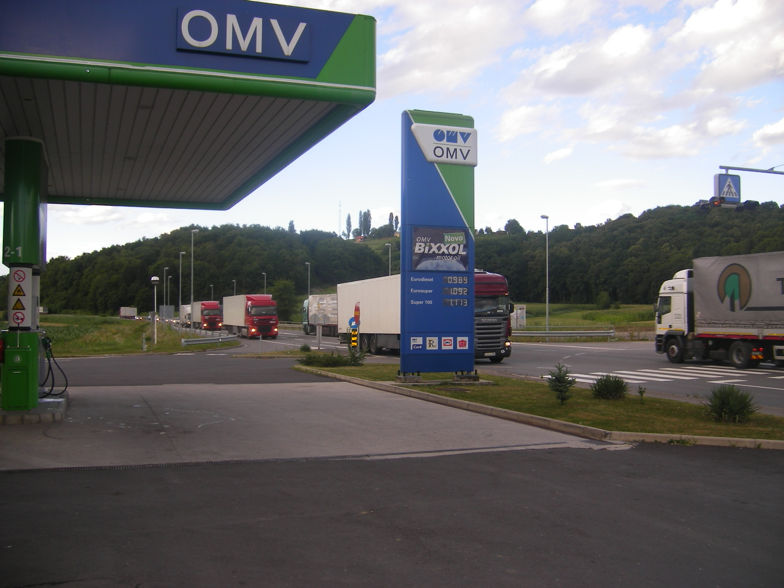 Heavy traffic of trucks on the Road 3 at Benedikt